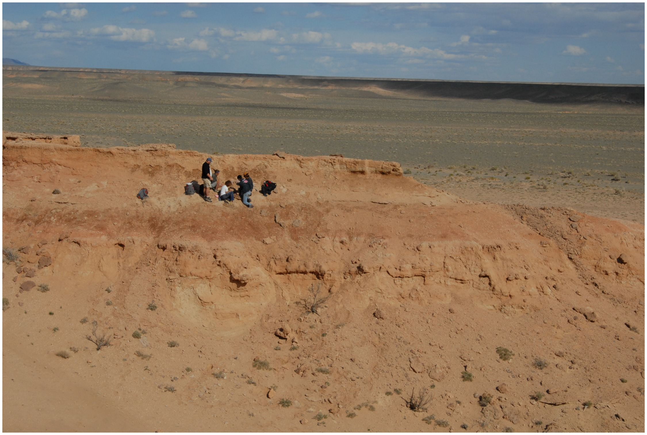 The site of Altan Uul III where the holotype specimen (MPC-D 102/111) of Gobiraptor minutus gen. et sp. nov. was found in 2008.